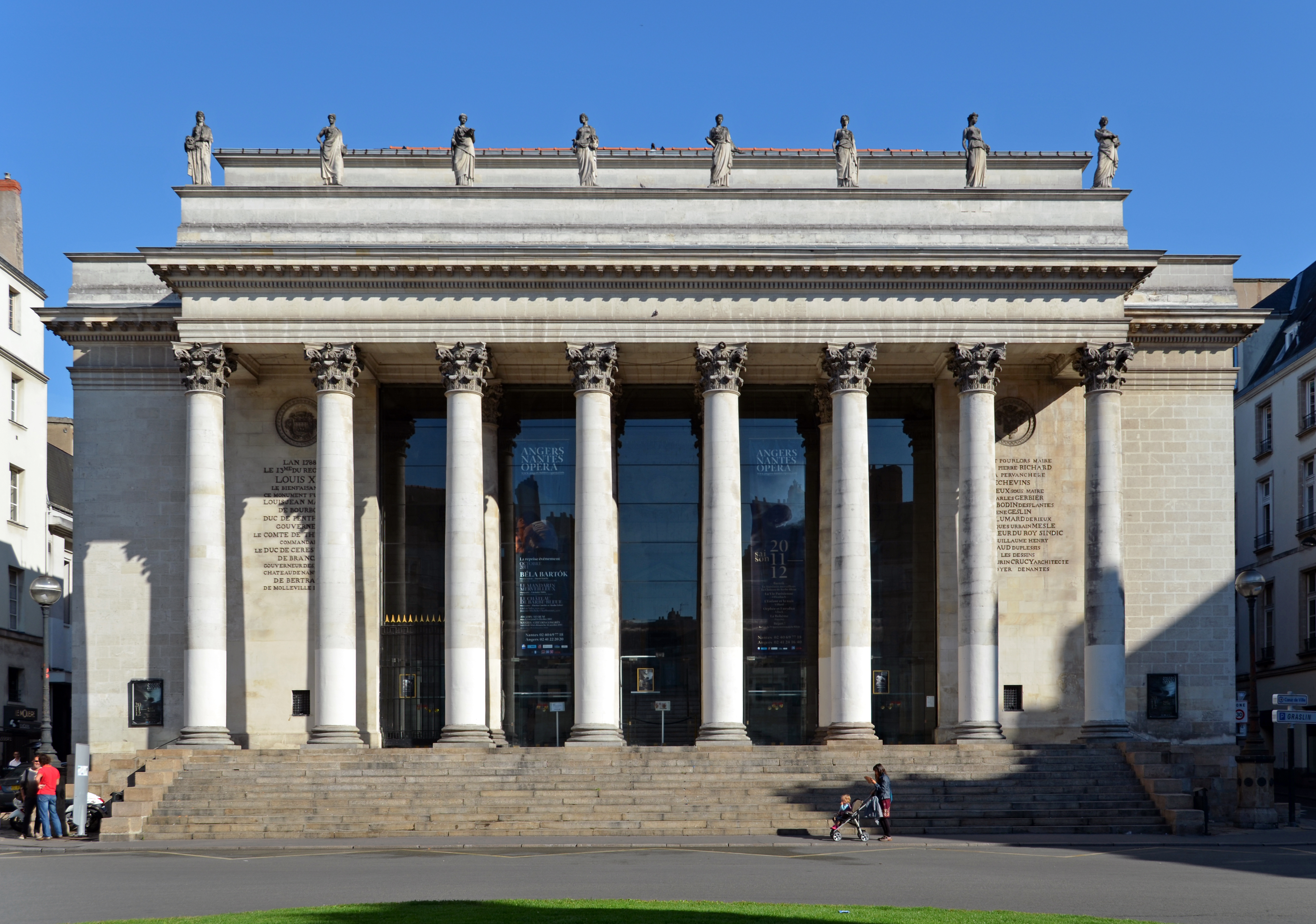 Théâtre Graslin built in 1787-1788 by Mathurin Crucy - Nantes, France. .